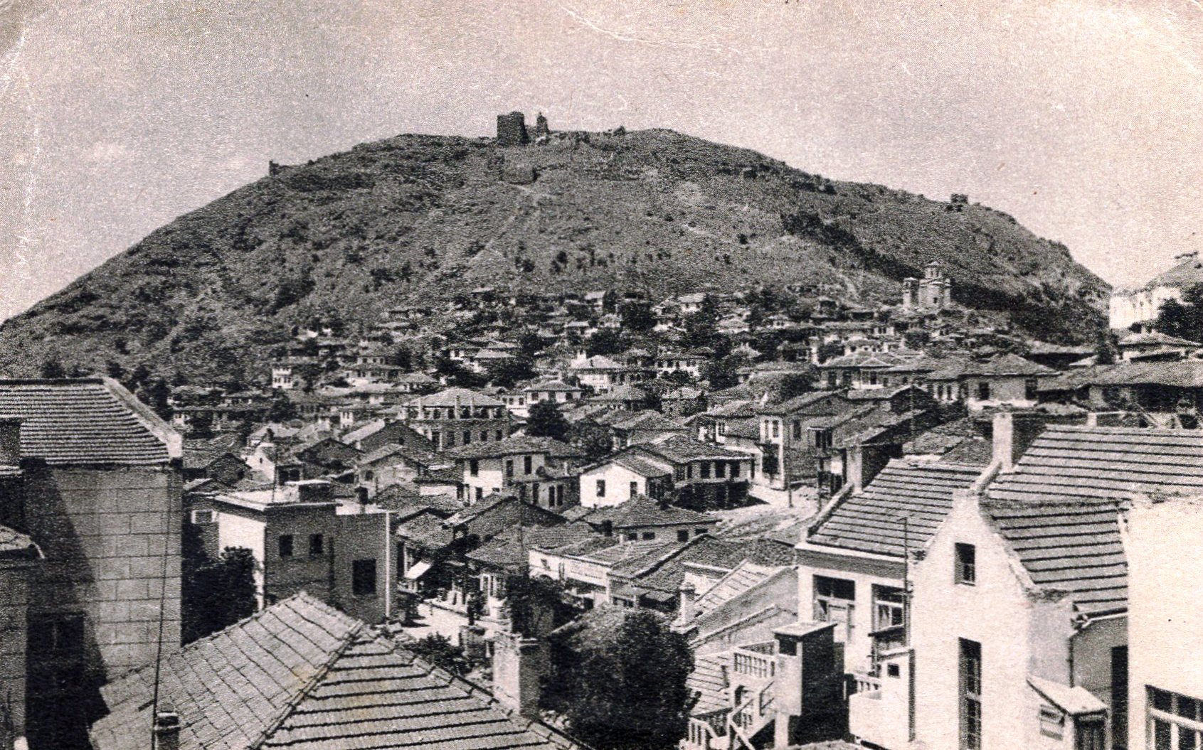 Postcard of Štip with Markovo Kale, 1930's This media file is produced by Wikipedian in Residence in Category:Wikipedian in Residence at DARM in 2016.